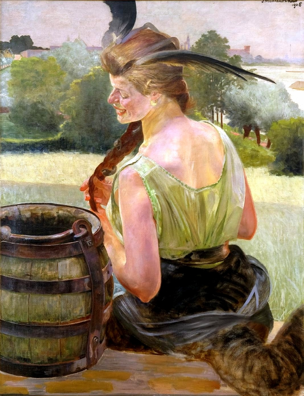 Jacek Malczewski, Poisoned well with a chimera (1905), Jacek Malczewski Museum in Radom, Poland